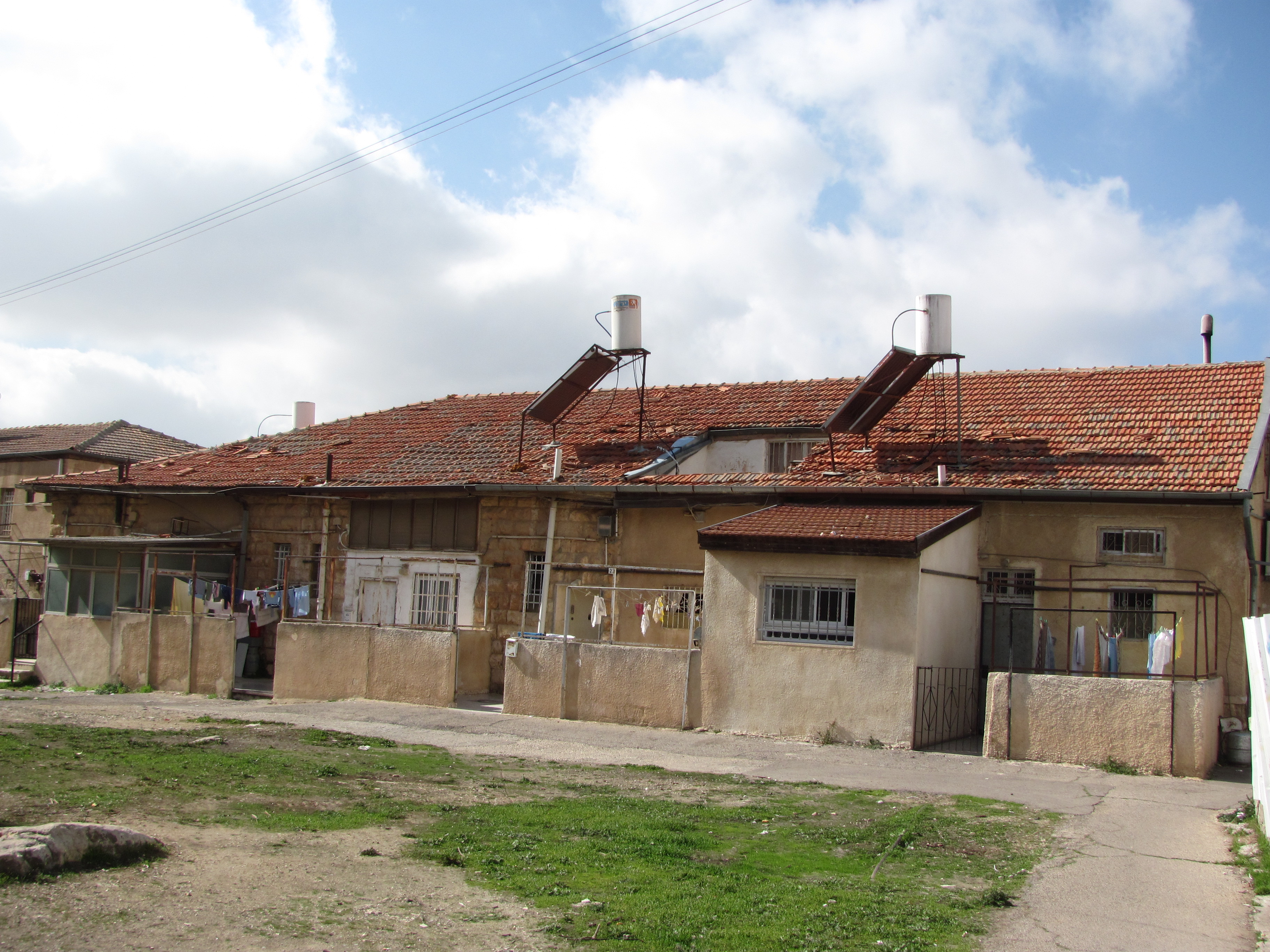 Row of apartments in Batei Munkatsh, Jerusalem, with courtyard in foreground.